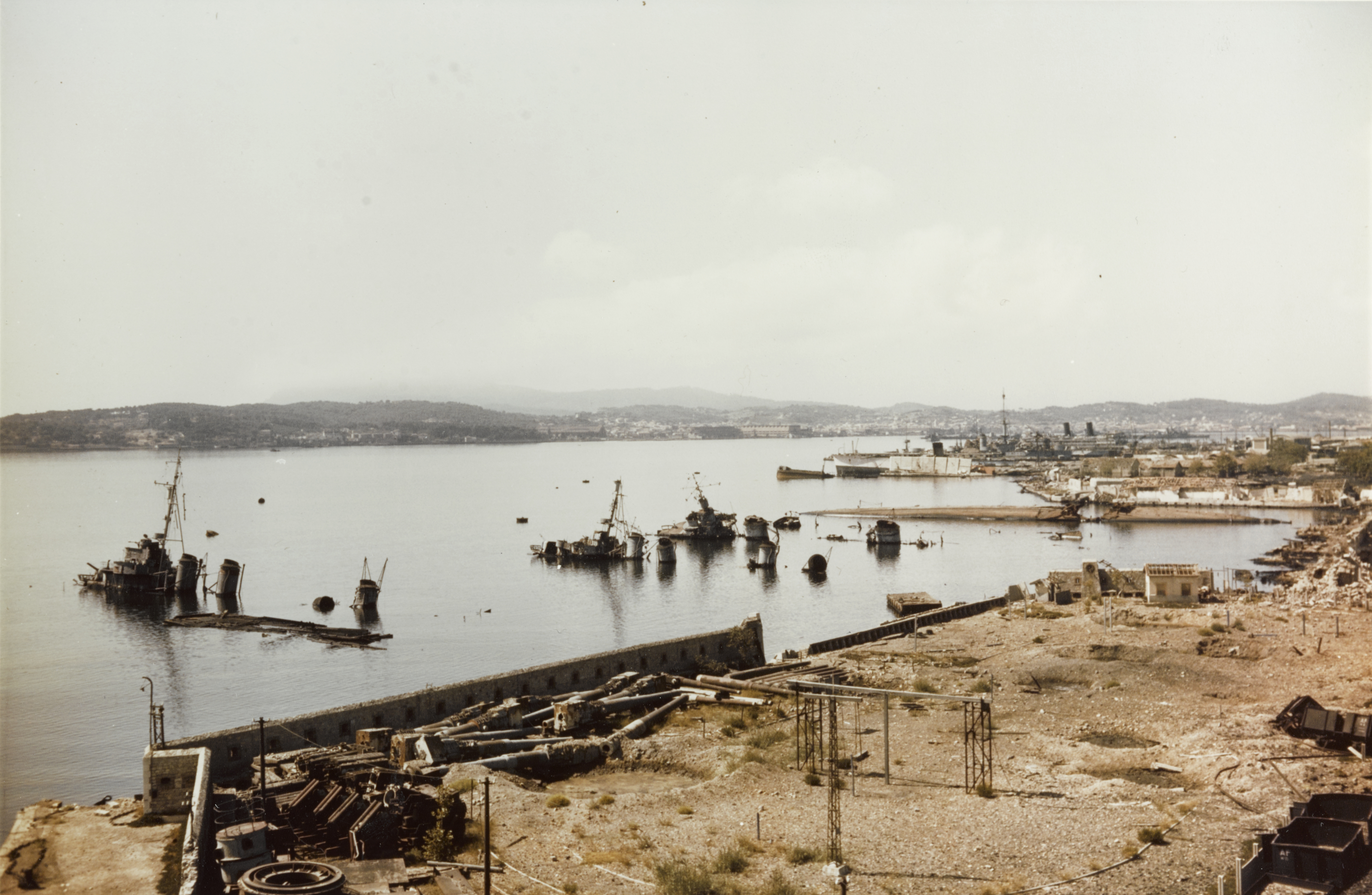 The Toulon Naval Dockyard, France photographed from the Coaling Station circa late 1944, showing wreckage left from the scuttling of the French fleet on 27 November 1942, plus subsequent bombing damage. The destroyers sunk just off shore are (from left to right): Tartu, Cassard and L'Indomptable (all sunk upright), Vautour (nearly fully submerged) and Aigle (capsized and blown in two). In the right center distance is the partially dismantled old battleship Condorcet. A number of heavy guns, many damaged, are in the left center foreground, with a large bomb crater adjacent to them. Several other bomb craters are in the right foreground.